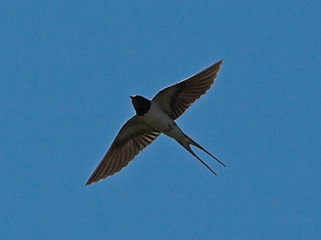 Hirundo rustica in flight. Photo by Thermos.